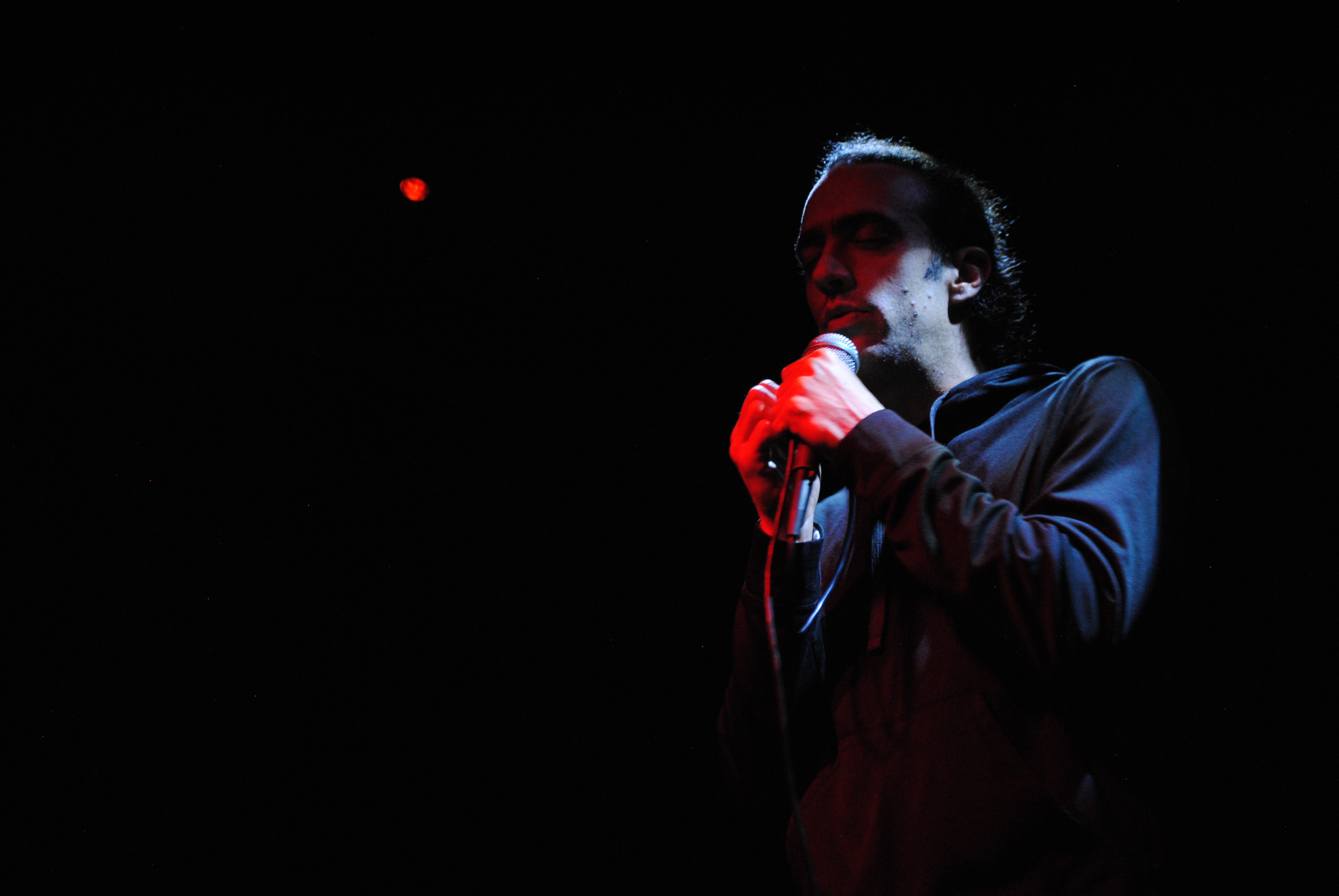 Multiforo Cultural Alicia, Mexico City